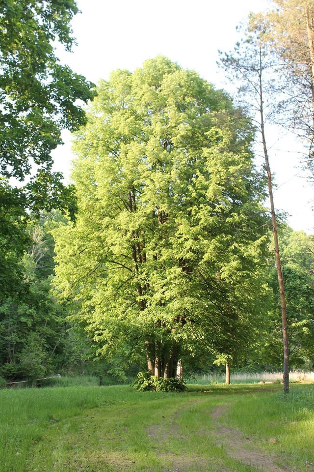 Peceliai, Kretinga district, LithuaniaLietuvių: Liepa Pecelių kaime, Kretingos rajonas, Lietuva